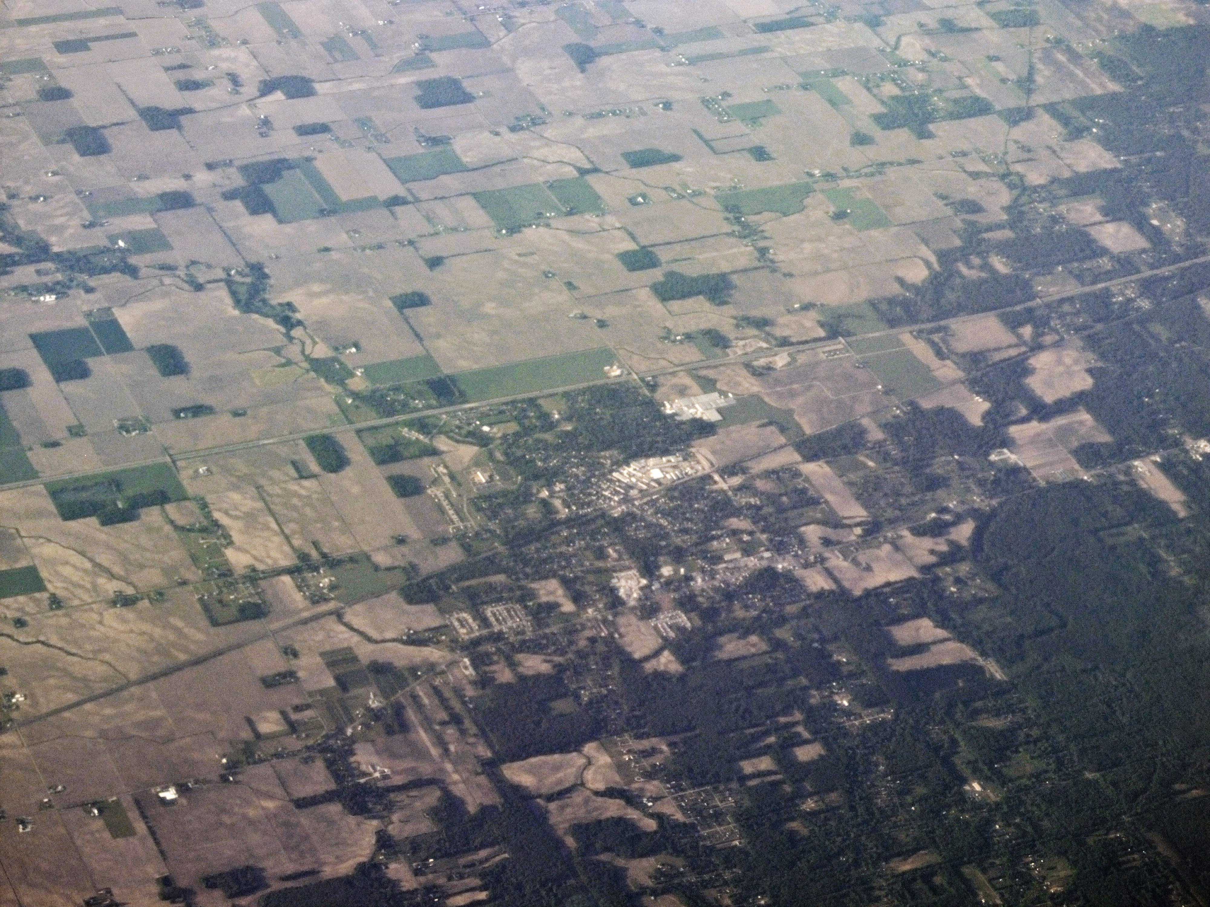 Aerial view of Swanton, Ohio, United States.